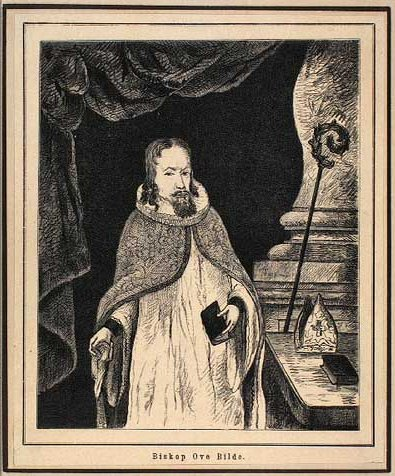 Etching. Ove Bille, Danish chancellor and bishop